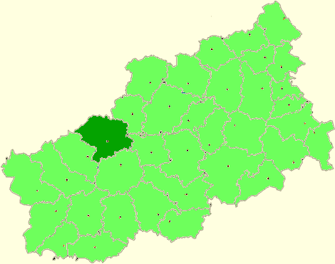 Tver Oblast map by Al Silonov